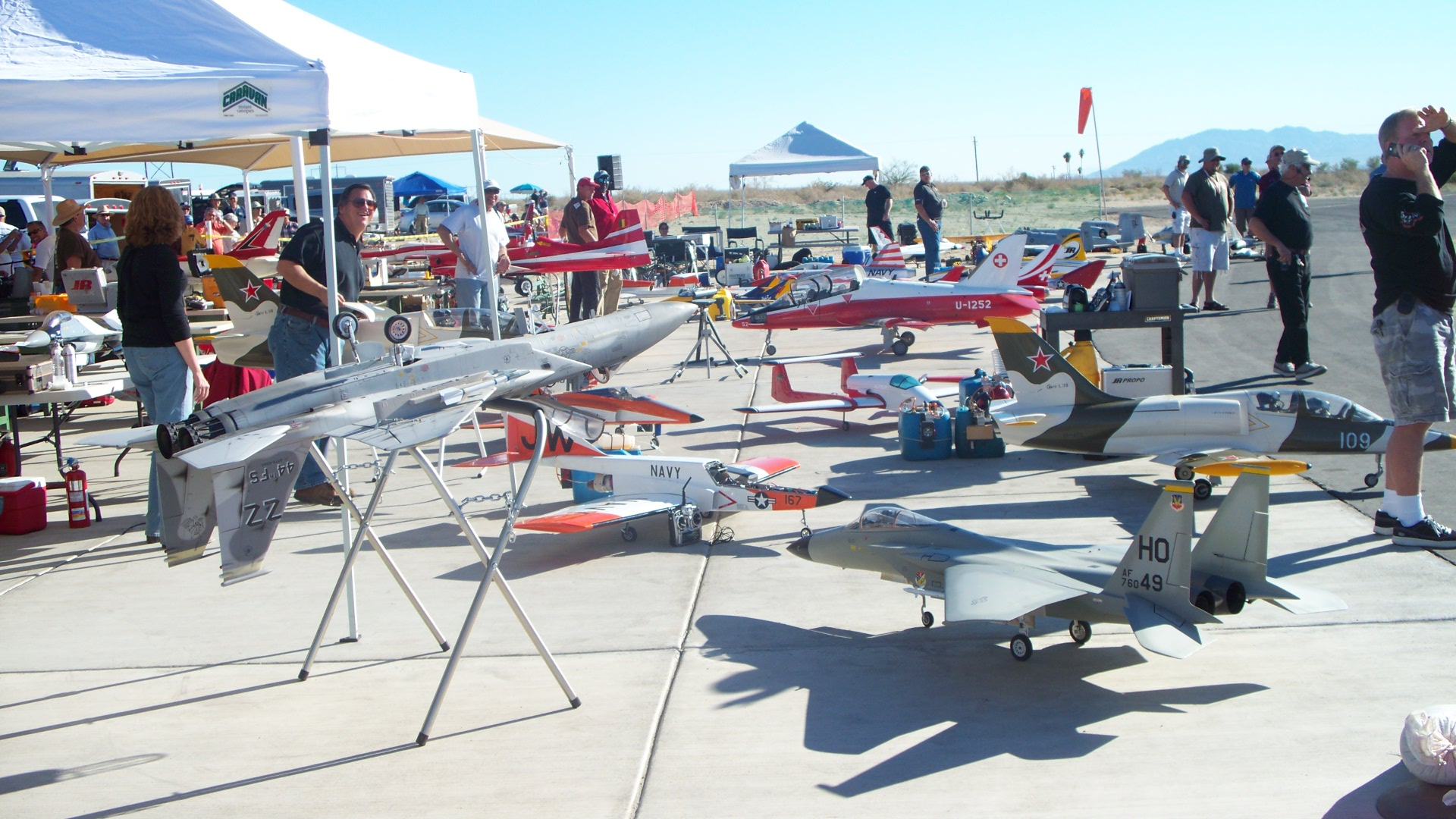 Pit area of the Coachella Valley Radio Control Club near Thermal, California USA during the 2009 "Best In The West" meeting of turbine- and ducted fan-powered model aircraft